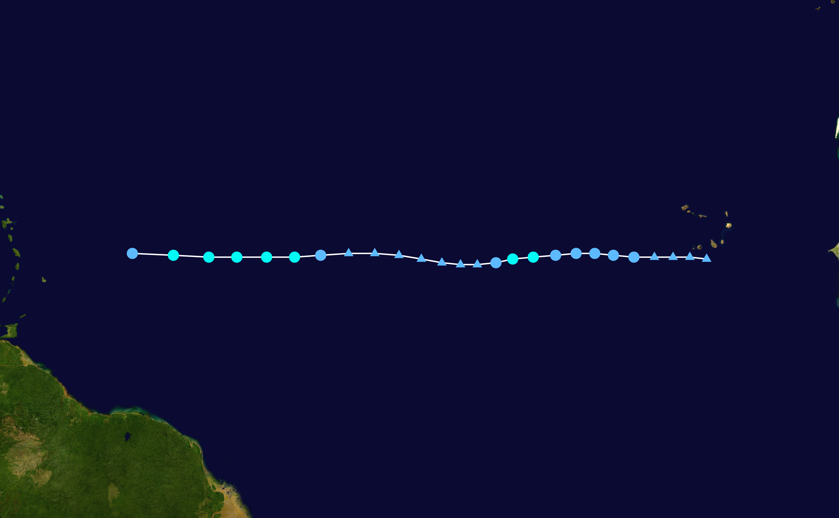 Track map of Tropical Storm Ana of the 2009 Atlantic hurricane season. The points show the location of the storm at 6-hour intervals. The colour represents the storm's maximum sustained wind speeds as classified in the Saffir–Simpson scale (see below), and the shape of the data points represent the nature of the storm, according to the legend below. Saffir–Simpson scale Tropical depression≤38 mph≤62 km/h Category 3111–129 mph178–208 km/h Tropical storm39–73 mph63–118 km/h Category 4130–156 mph209–251 km/h Category 174–95 mph119–153 km/h Category 5≥157 mph≥252 km/h Category 296–110 mph154–177 km/h Unknown Storm type Tropical cyclone Subtropical cyclone Extratropical cyclone / Remnant low / Tropical disturbance / Monsoon depression